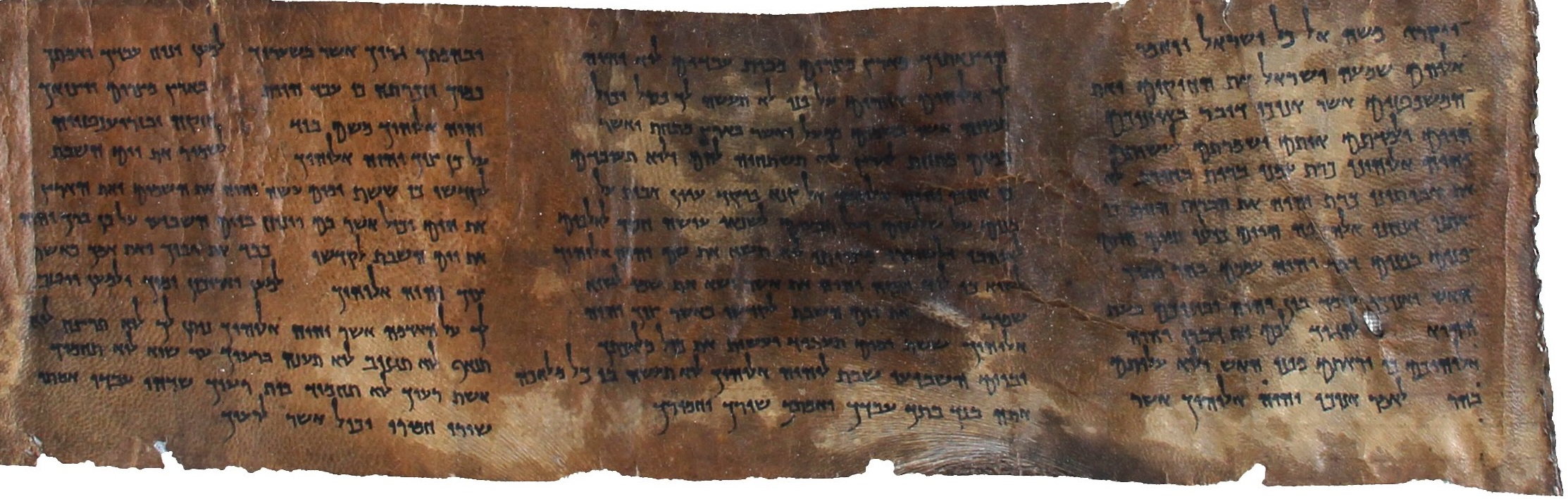 A derivative of source file, a cropped version of the ten commandments with the minimal unrelated text possible.